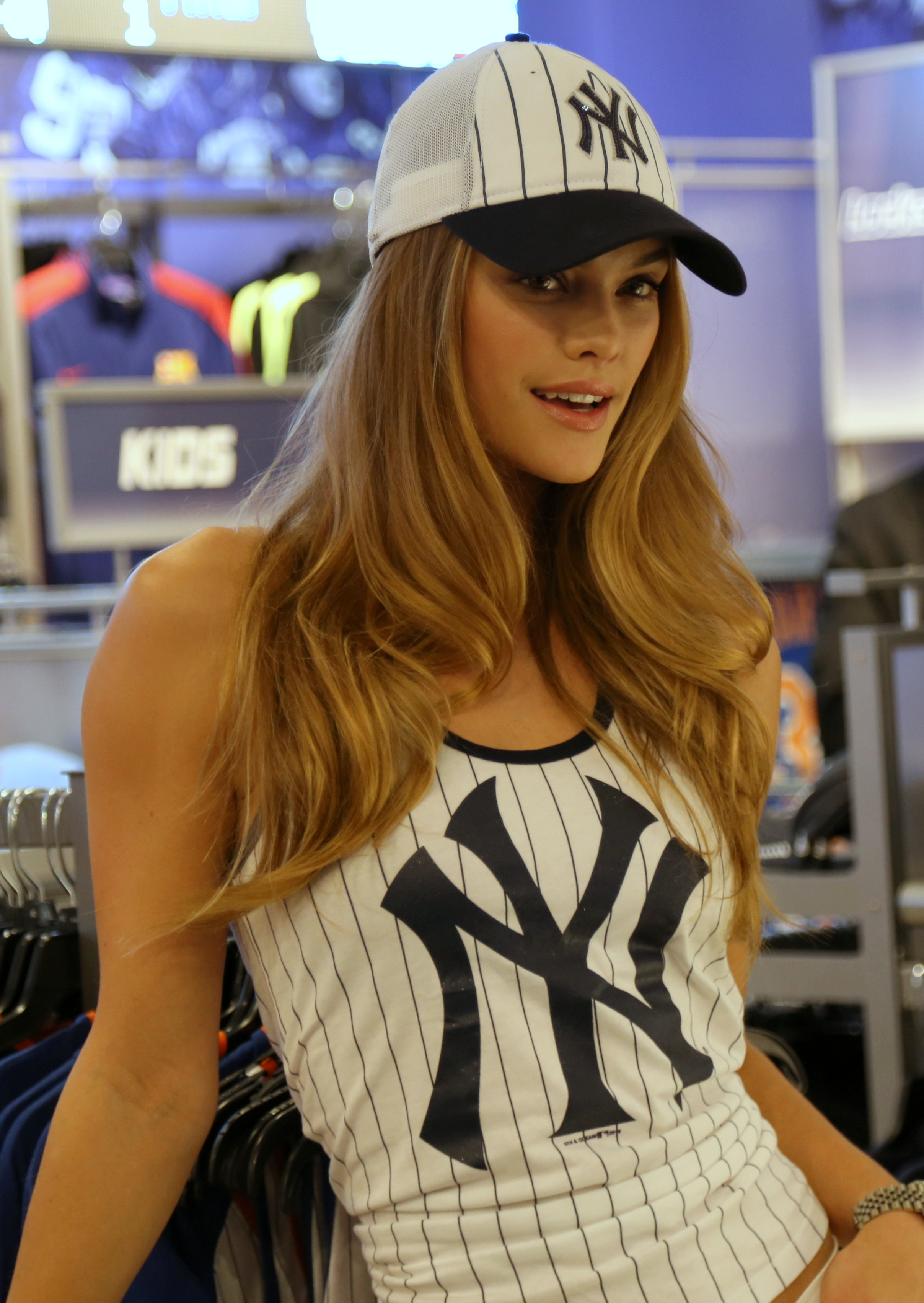 New Era brand ambassador Nina Agdal shops the new women’s MLB looks at the Locker Room by LIDS shop at Macy’s in Herald Square.